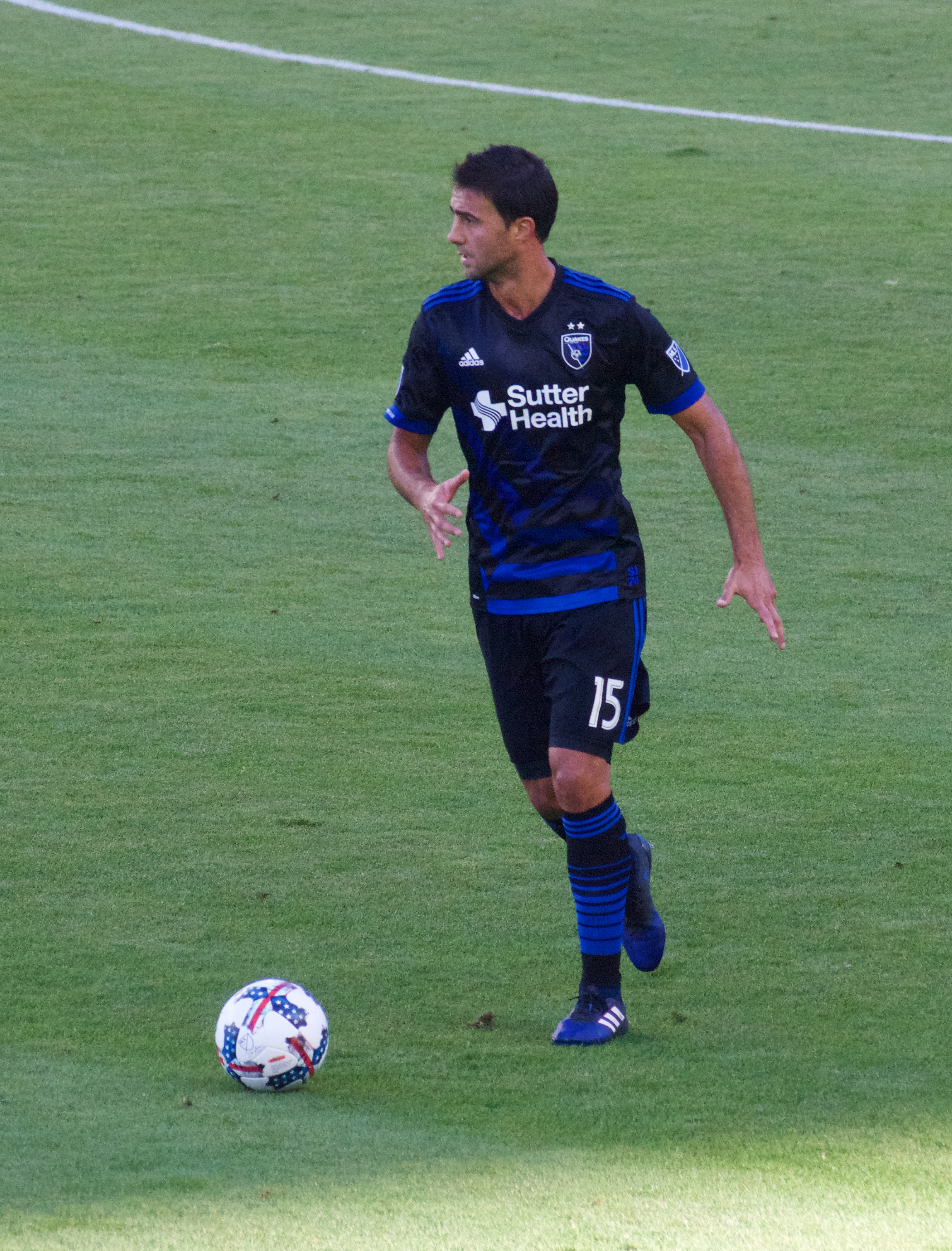 Andrés Imperiale playing for San Jose Earthquakes at Avaya Stadium, 2017-07-29